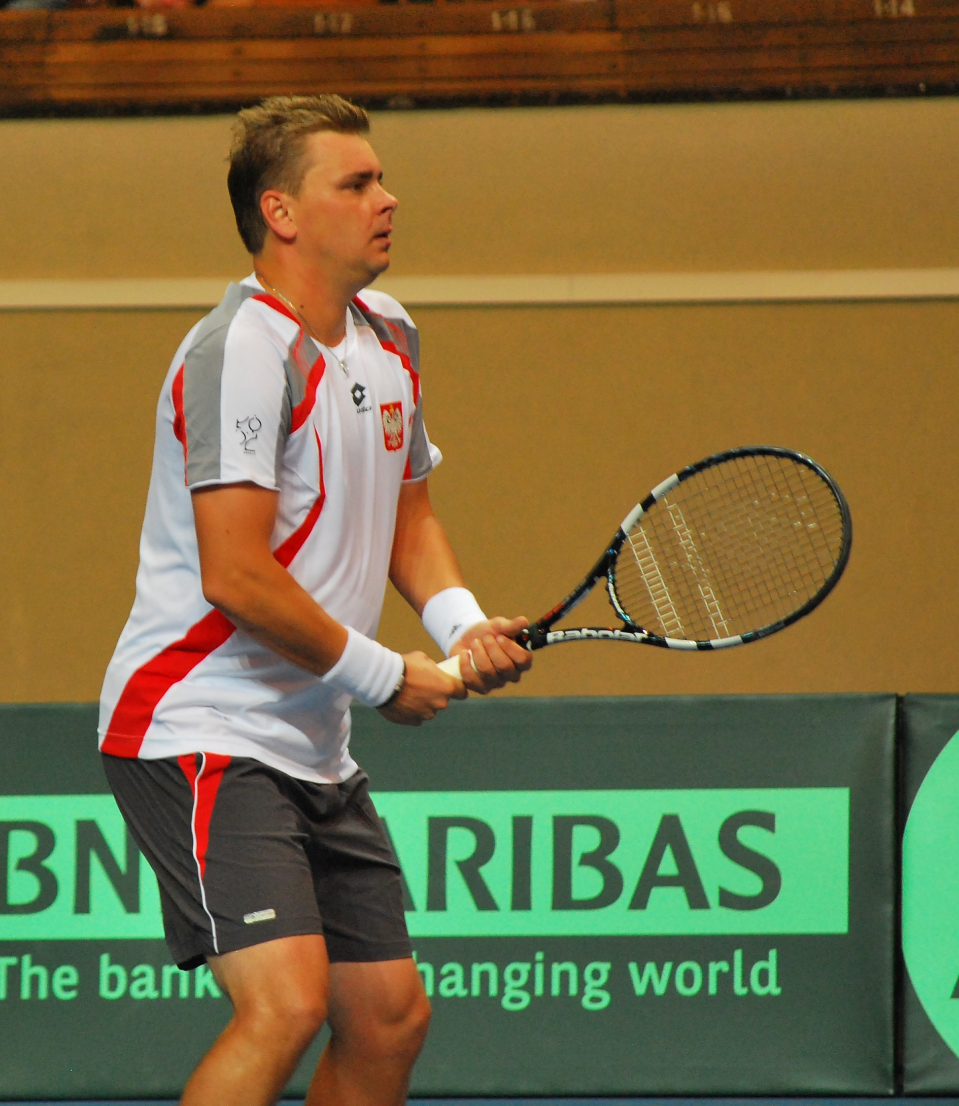 Marcin Matkowski, tennis player from Poland, Davis Cup Łódź 2012 2